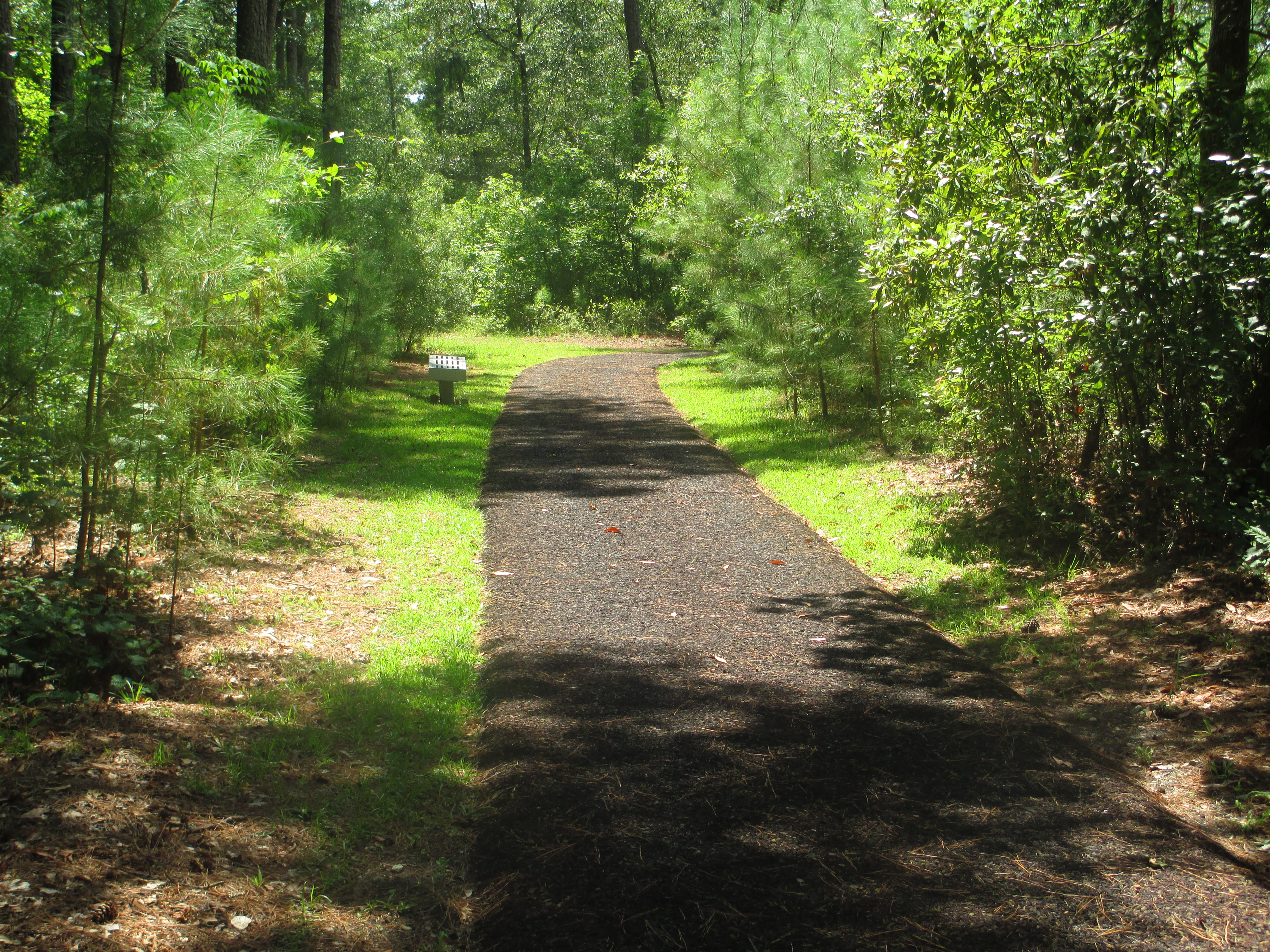 I took photo of trail at Moore Creek with Canon camera.